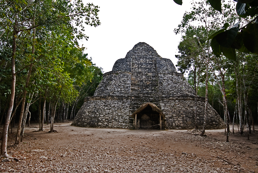 The Oval Temple at Cobá.